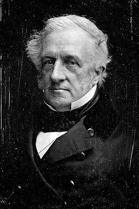 George Peabody Daguerreotype, possibly the George Peabody of Salem, not the en:George Peabody from South Danvers, Massachusetts